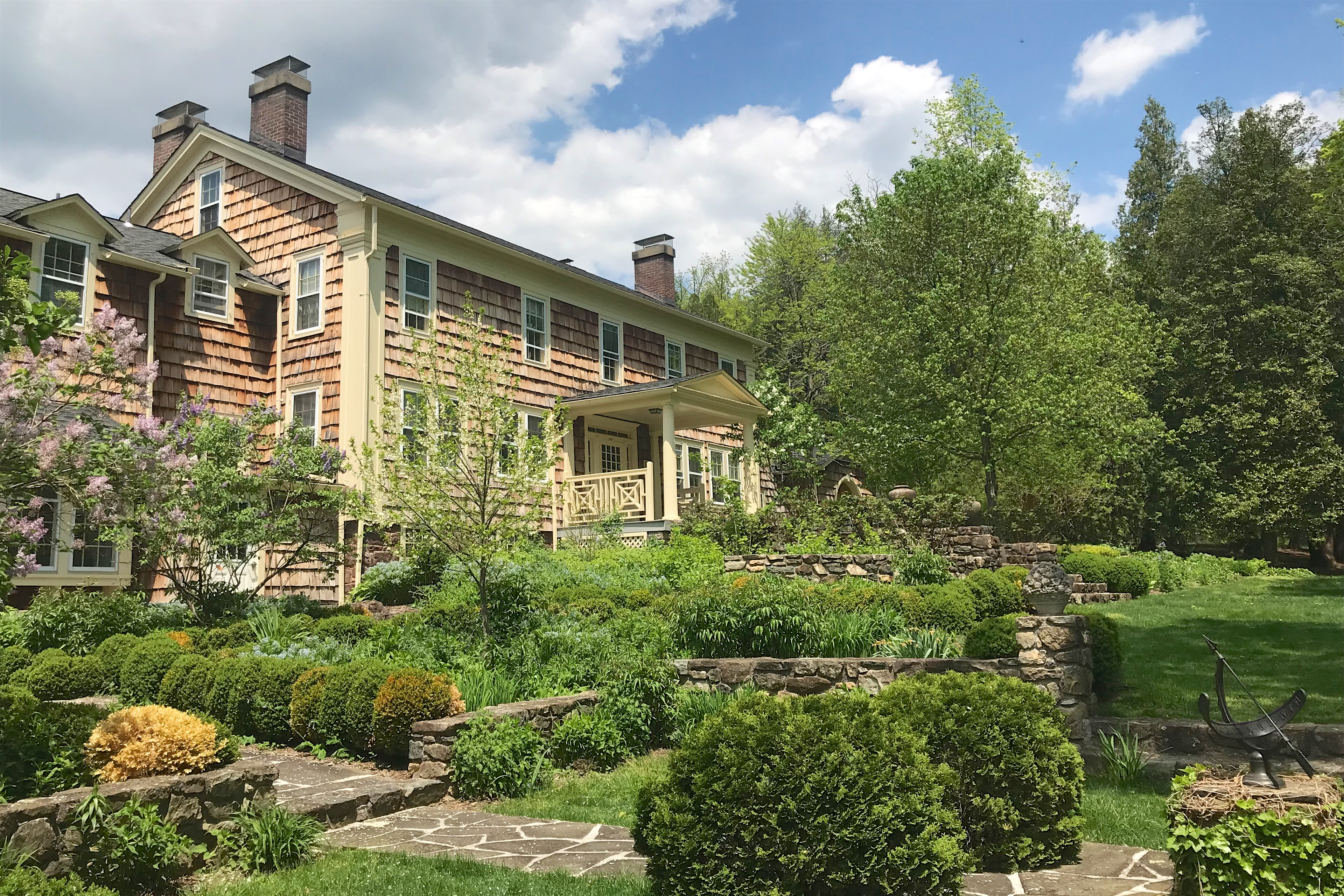 View of the main residence and garden with equatorial sundial at the Bamboo Brook Outdoor Education Center in Chester Township, New Jersey.